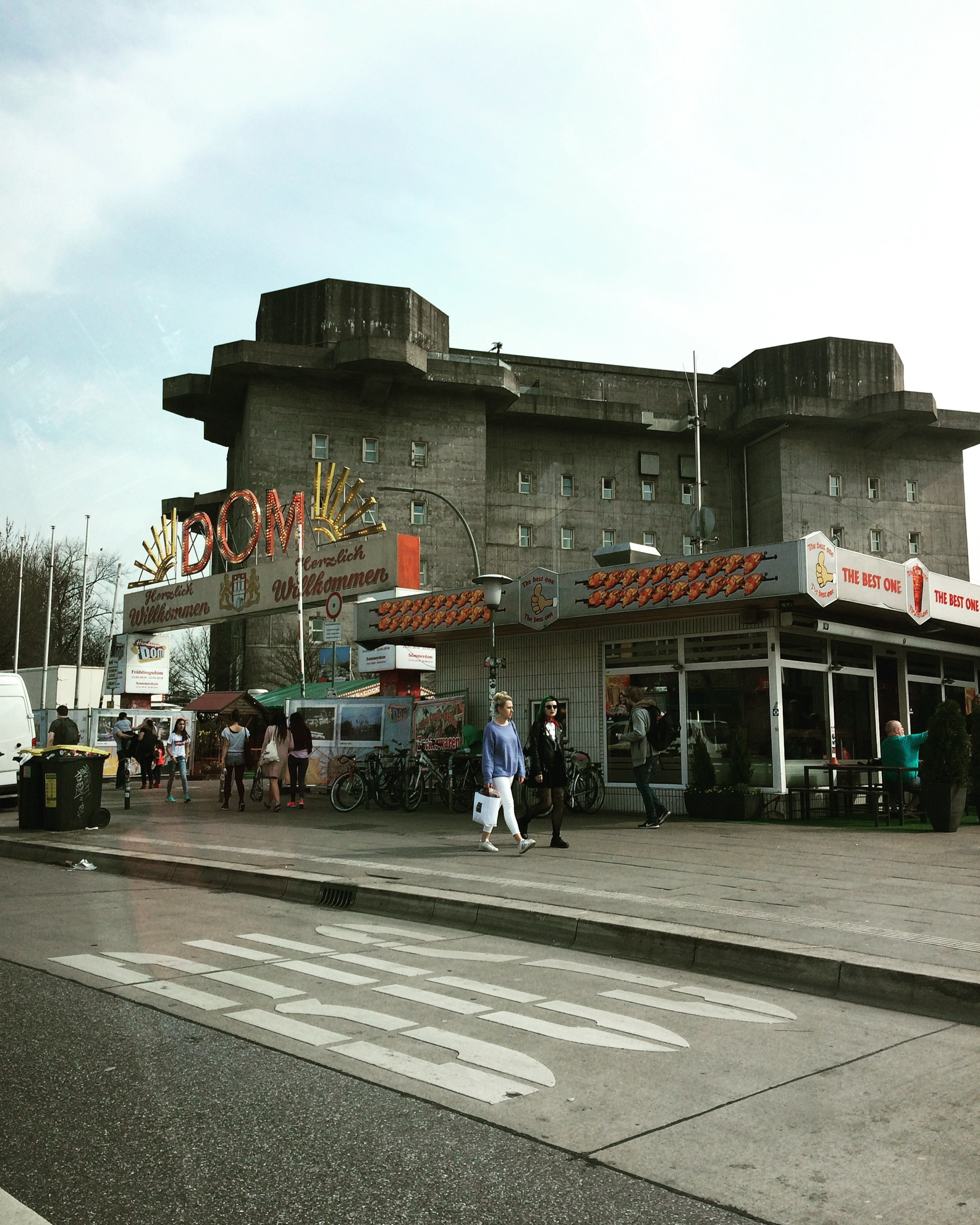 Uebel und Gefährlich; nightclub and concert venue in Hamburg, Germany